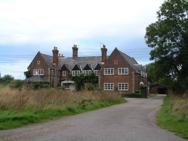 The Old School House, Cheverell's Green. Now spilt into residential accommodation.